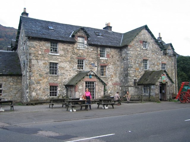 The Drover's Inn, Inverarnan A must visit if you are in the Loch Lomond area - built in 1705 and still going strong. First looks suggest it hasn't changed much since it was built. Full of good Highland hospitality